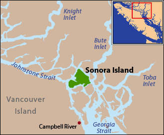 This is a locator map of Sonora Island. I, Pfly, made it with ArcGIS, Adobe Illustrator, and Adobe Photoshop. The coastline data is from the Digital Chart of the World.